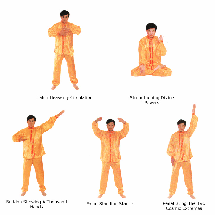 Images showing The Five Meditative Exercises of Falun Dafa License: As prominently displayed on photo library home page "欢迎转载传阅本网所有内容，但请注明出处" , English translation: you are free to carry and transmit all content, provided use is attributed. The copyright holder of this file allows anyone to use it for any purpose, provided that the copyright holder is properly attributed. Redistribution, derivative work, commercial use, and all other use is permitted.